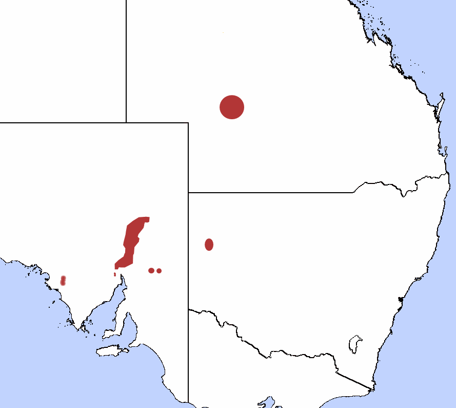 The Yellow-footed Rock-Wallaby's Distrobution.